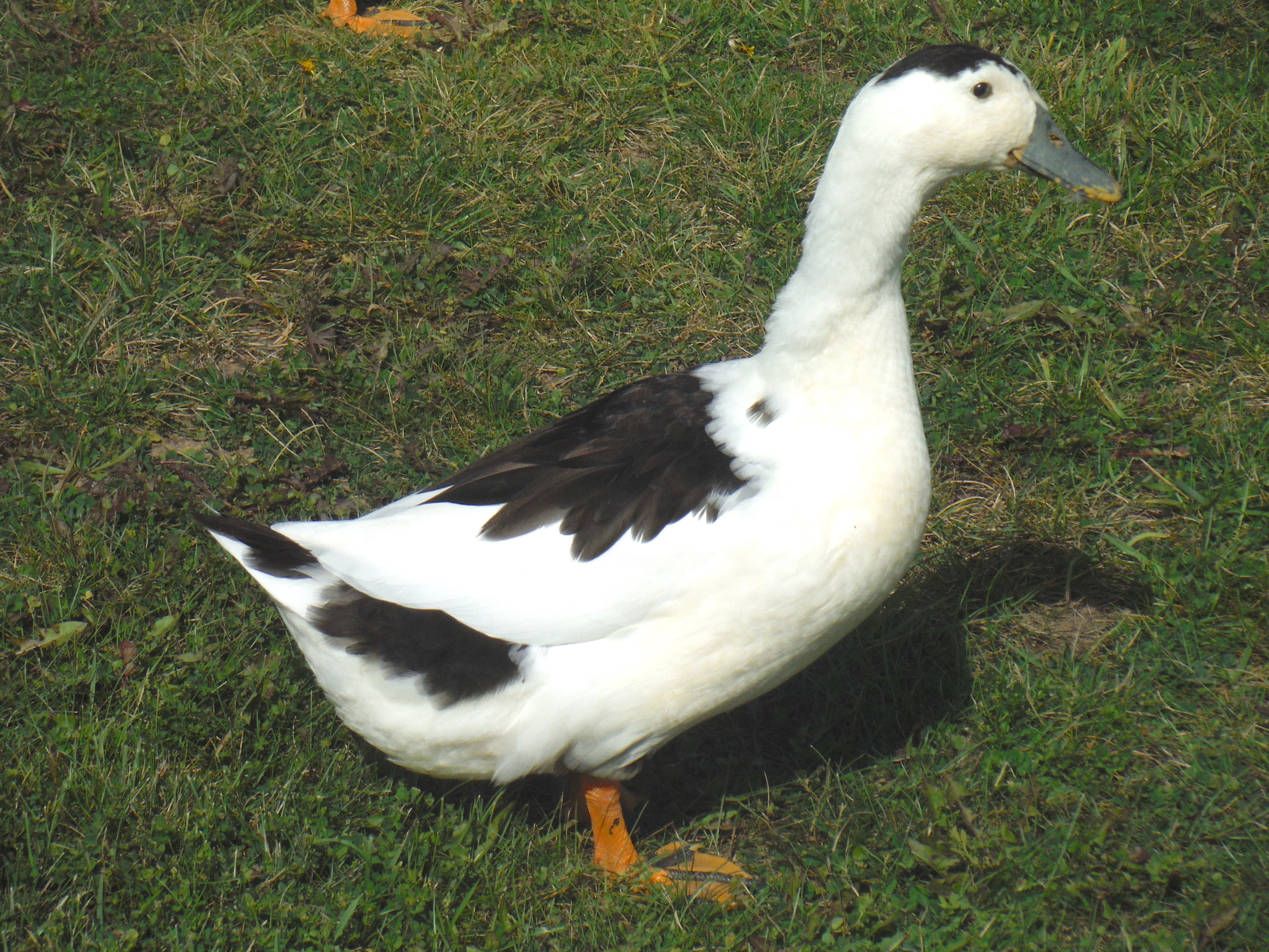 Image of a female magpie duck, a breed of domestic waterfowl.